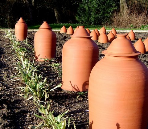 Terracotta rhubarb forcers in the vegetable garden of Raymond Blanc's Le Manoir aux Quat'Saisons, Great Milton, Oxfordshire, UK